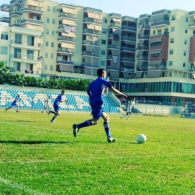 Kamza1-1 Dinamo